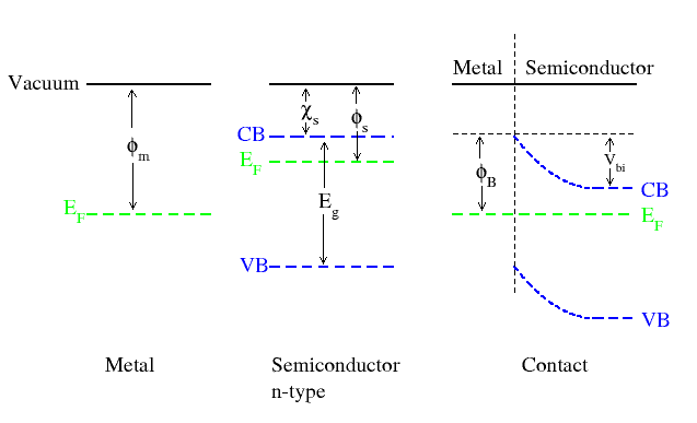 Either an ohmic contact or a Schottky barrier is formed when a metal and an n-type semiconductor are brought into contact. In the ideal case, the magnitude of the band bending and contact resistance depend on the doping of the semiconductor, its dielectric constant and the Schottky barrier where is the work function of the metal and is the electron affinity of the n-type semiconductor. Created by Alison Chaiken using xmgrace.